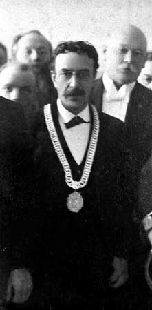 Photo of Nikolay Ivanovich Guchkov (1860 - 1935), mayor of Moscow from 1905 to 1912